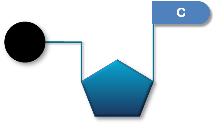 Diagrammatic image of cytosinie nucleotide showing the pentose sugar, phosphate and base.